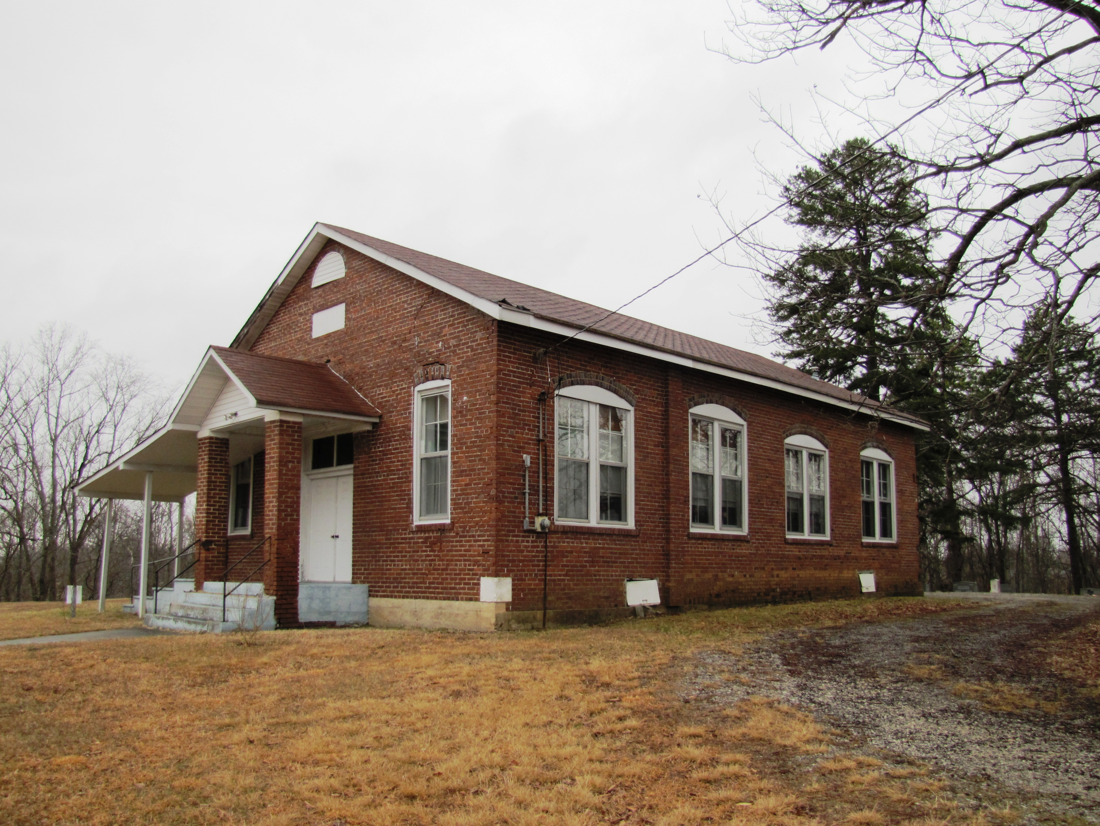 West End Church of Christ Silver Point, view of the southeast corner, in Silver Point, Tennessee, USA.